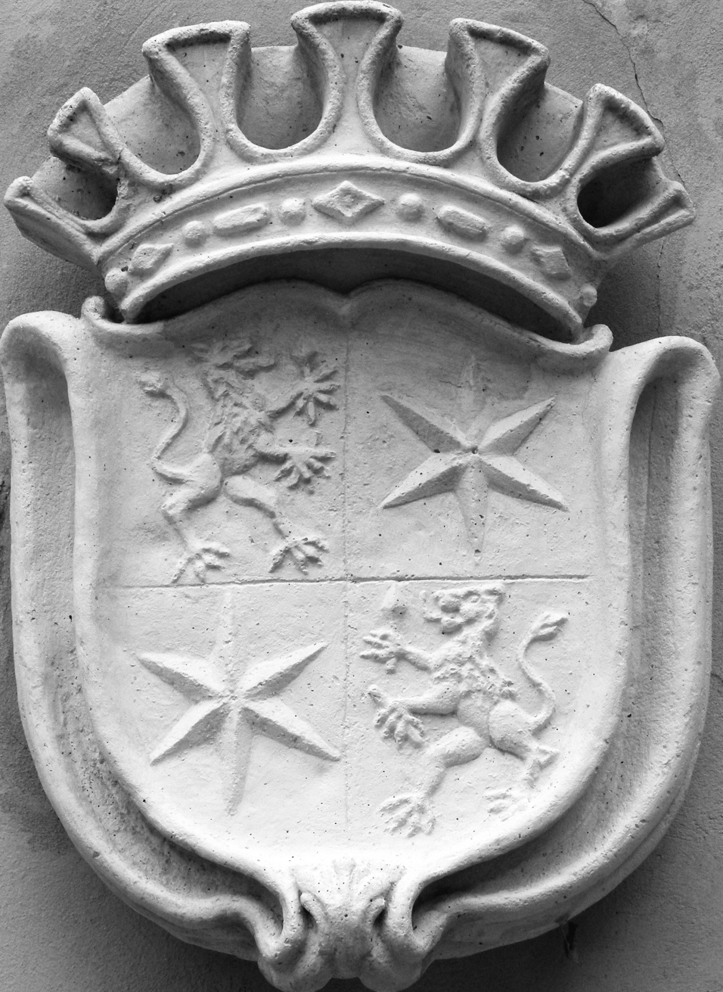 Coat of arms of Arthur Polzer. Chateau Modra, courtyard.